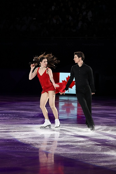 Gala exhibition at the 2018 Winter Olympics